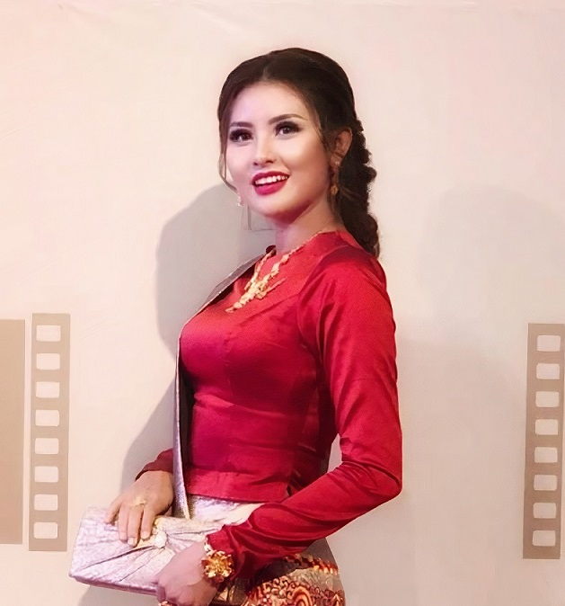 Myat Thu Thu is a Burmese actress, model and singer. She is best known for her roles in several MRTV-4 series and become popular among the audience with the series Dark Castle, Yadanar Htae Ka Yadanar, Pyar Yay Aine and Tatiya Myaut Sone Mat.